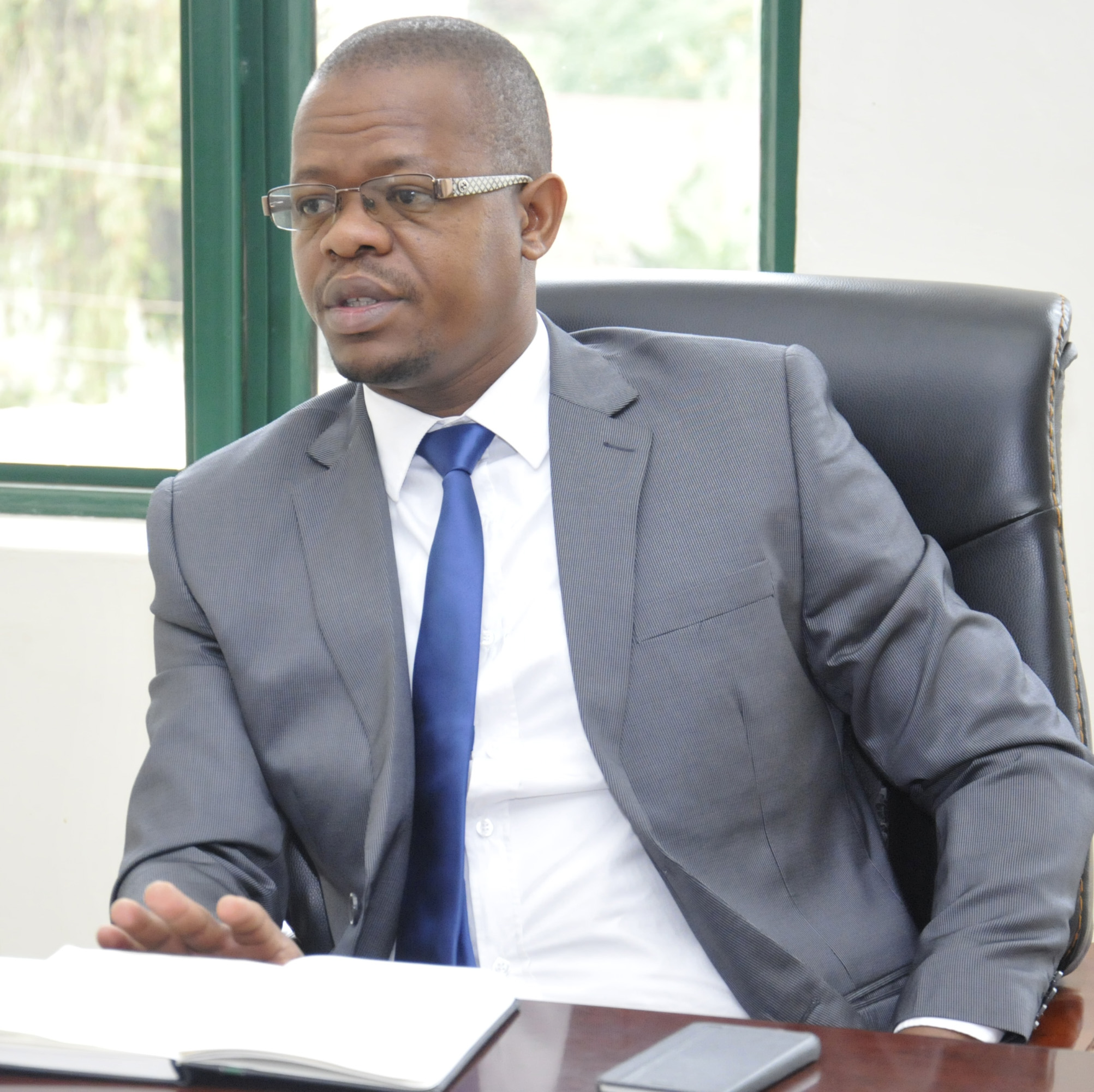 FUFA President Eng. Moses Magogo